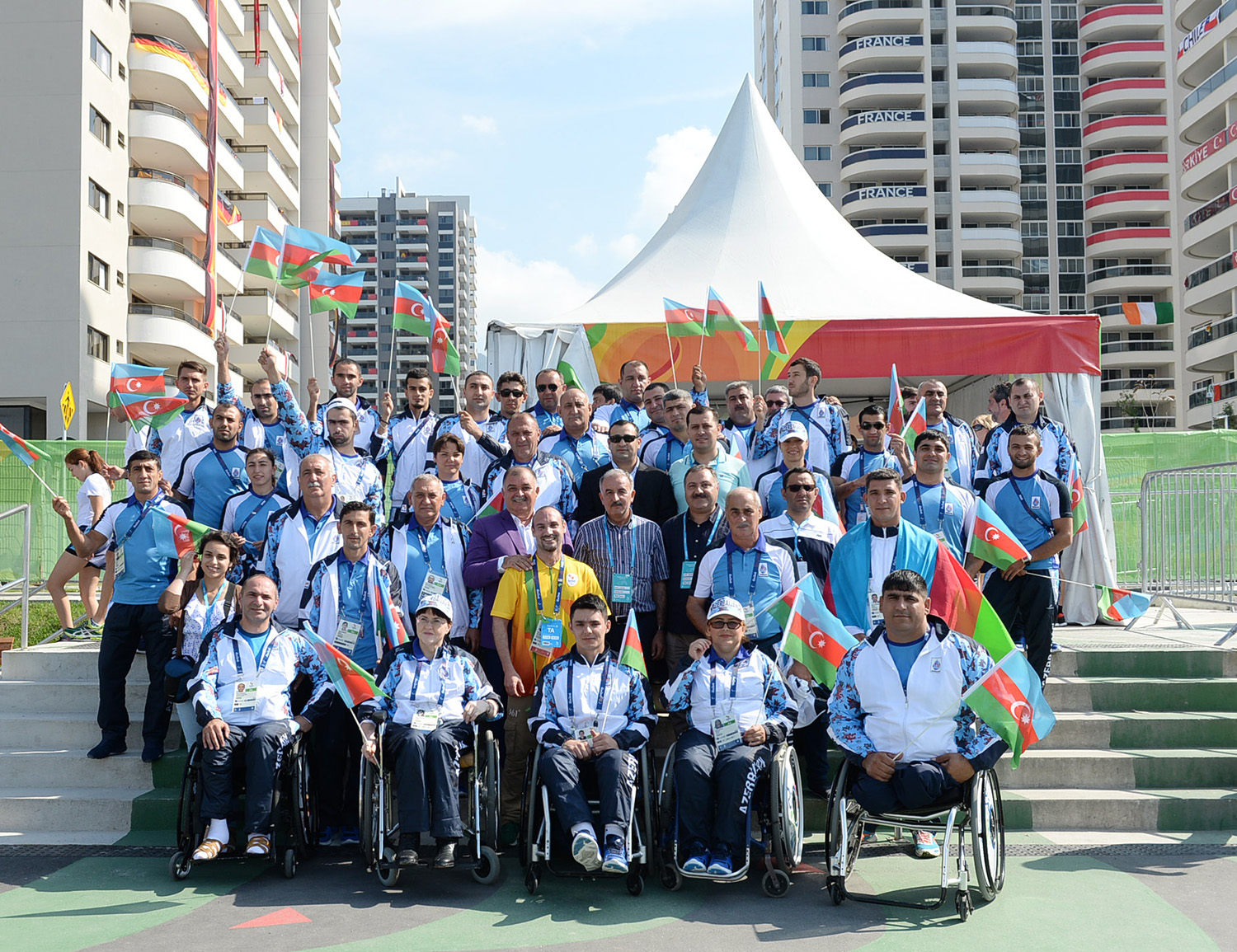 Azerbaijan Flag Raising Ceremony at the 2016 Summer Paralympics